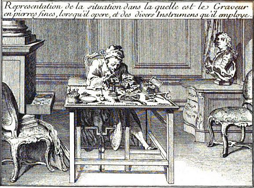 Plate depicting the gemstone engraver Jacques Guay at work.